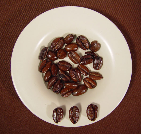 This picture shows distinctive shape variations of Liberica coffee beans. These are coffee beans from Mindora, an island in the Phillipines near Luzon. Liberica beans have a unique asymmetrical shape and are the largest coffee beans in the world, often reaching more than 1" in length. Other information